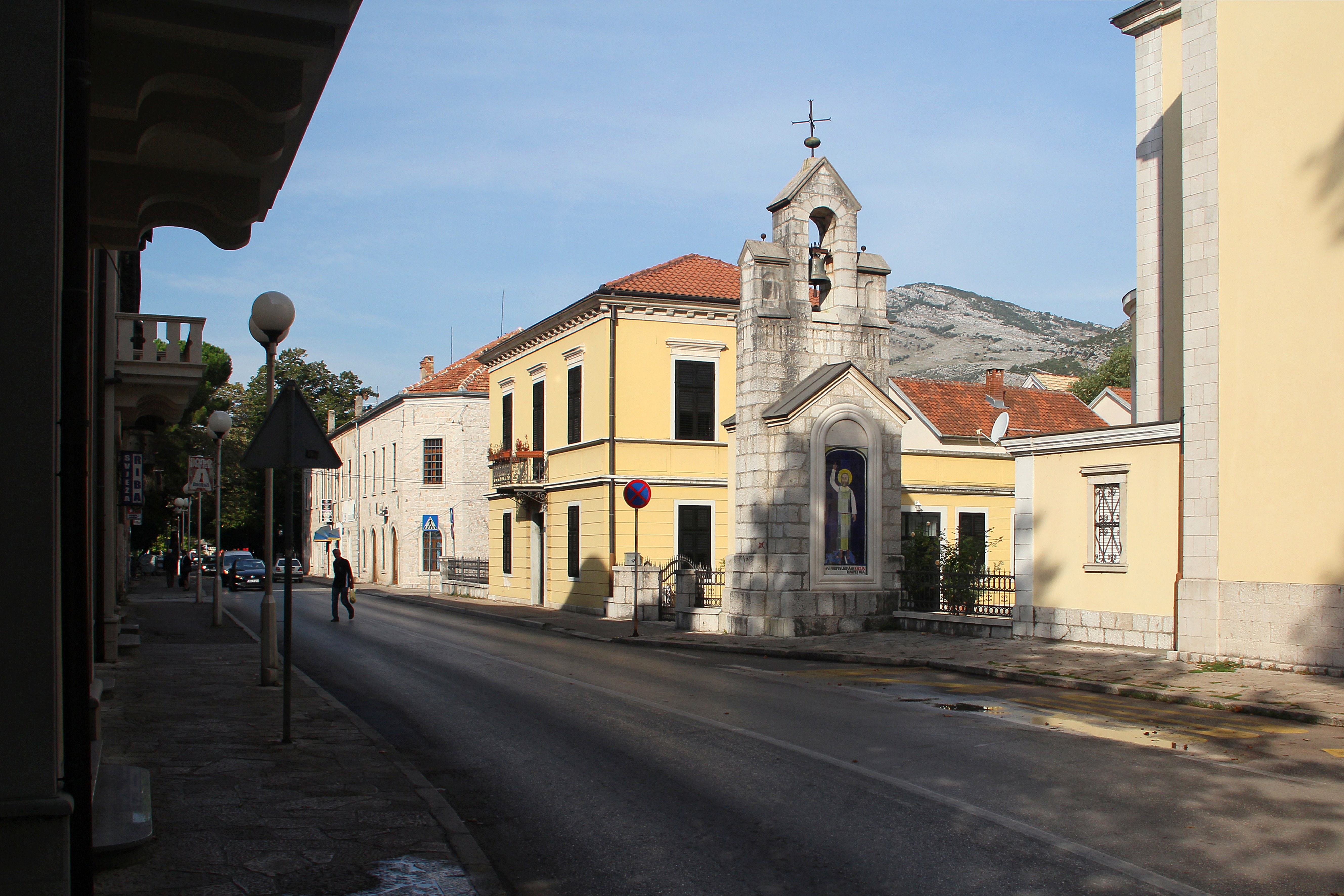 The Cathedral of the Birth of Mary, Trebinje, Bosnia and Herzegovina